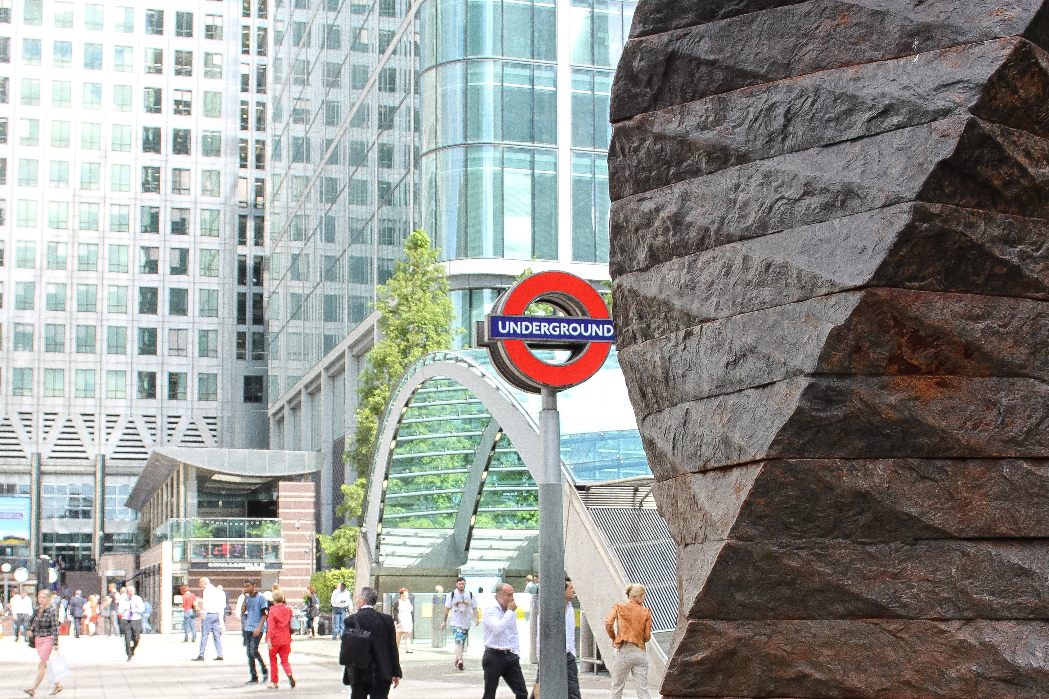 Torsion II on Bank Street, Canary Wharf, London